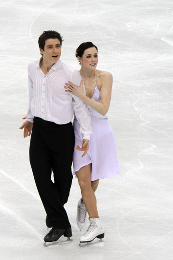 Tessa Virtue and Scott Moir at the 2010 World Figure Skating Championships.